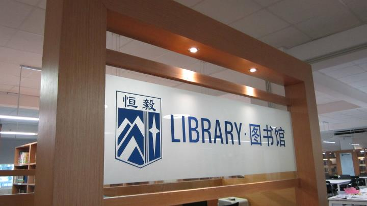 Heng Ee Library, located in Level 2 Bangunan Wawasan